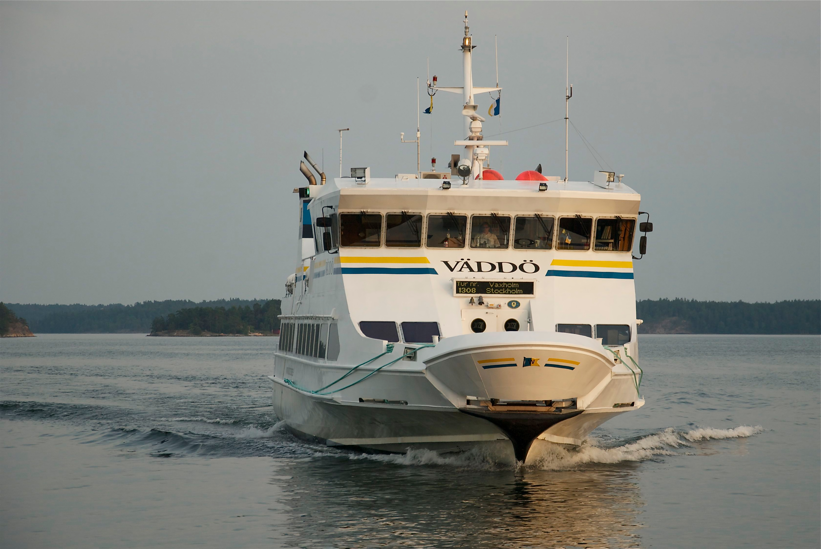 MS Väddö July 2011